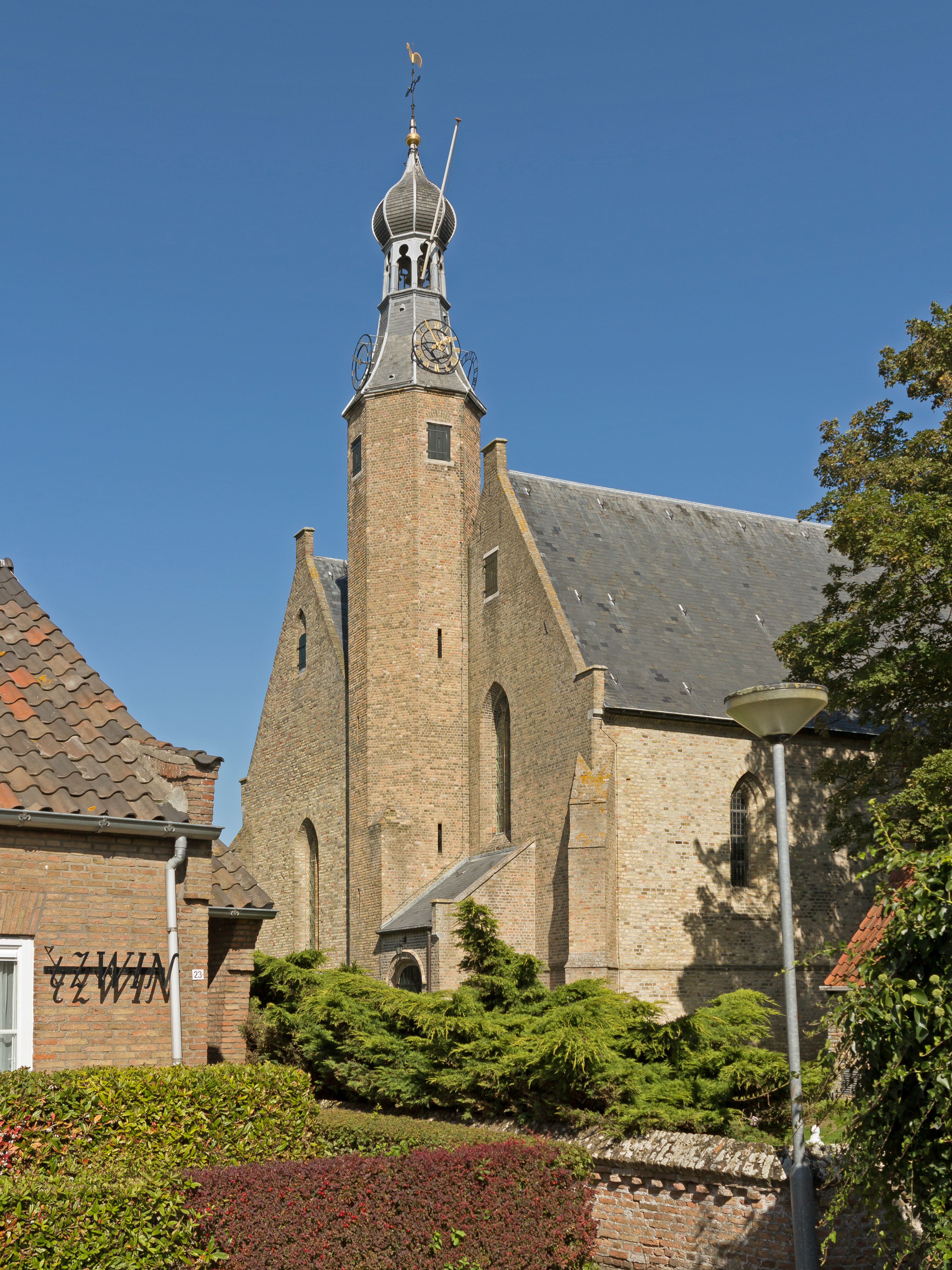 Cadzand, church: de Mariakerk